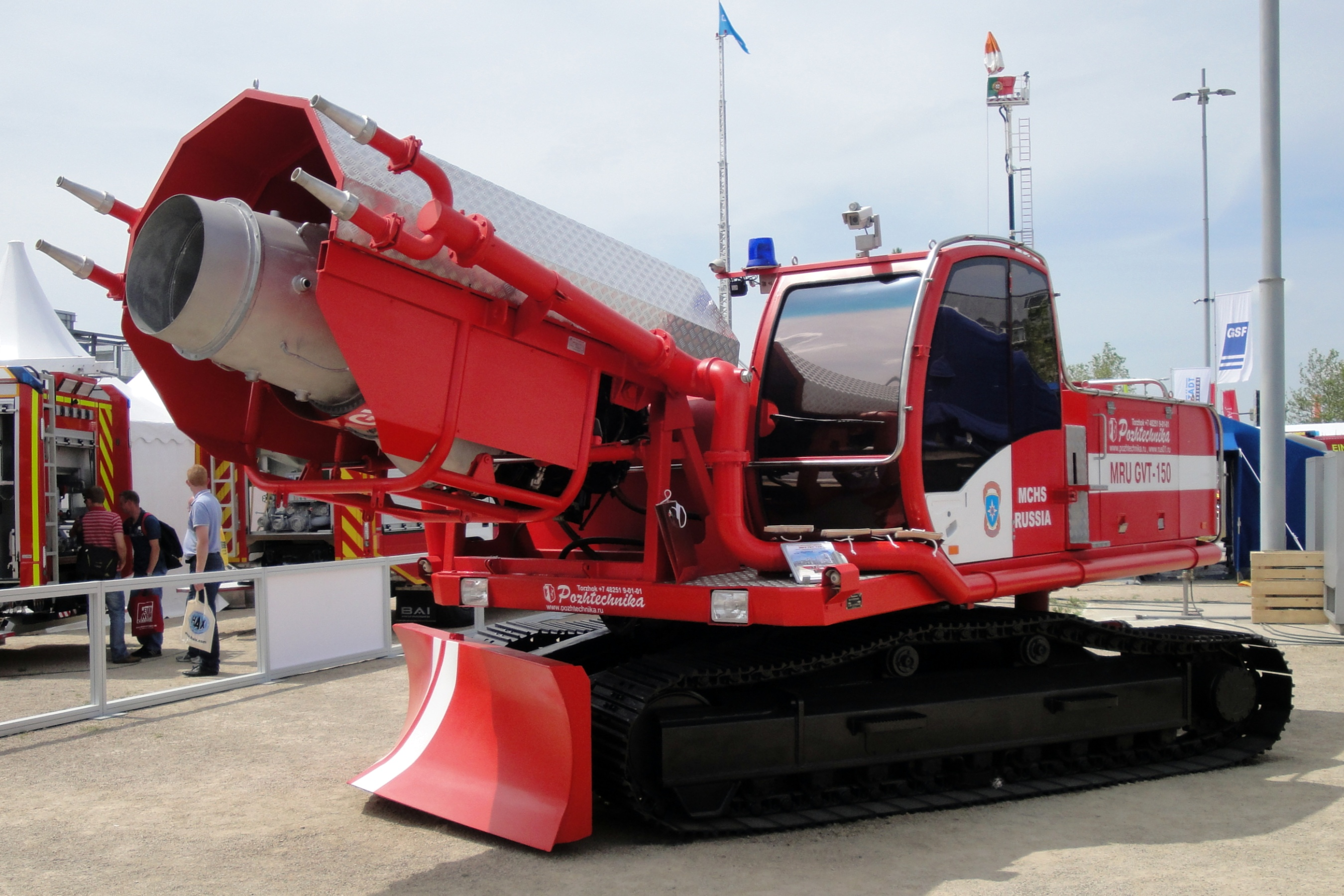 EMERCON Pozhtekhrika MTU GVT-150